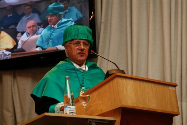 speech of Tom Wilson during his honoris causa doctoral investiture at the University of Murcia